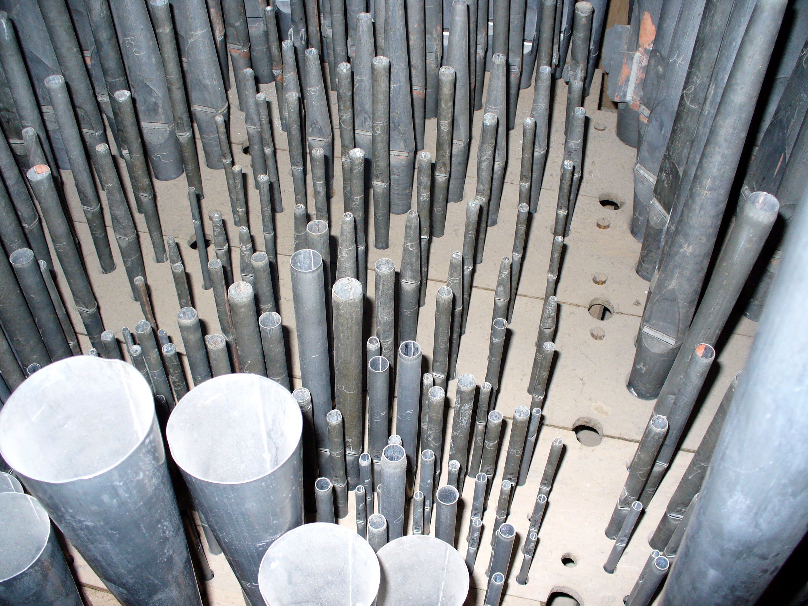 The pipe organ in the Evangelical Lutheran Church in Marienhafe (East Frisia), Lower Saxony, Germany.